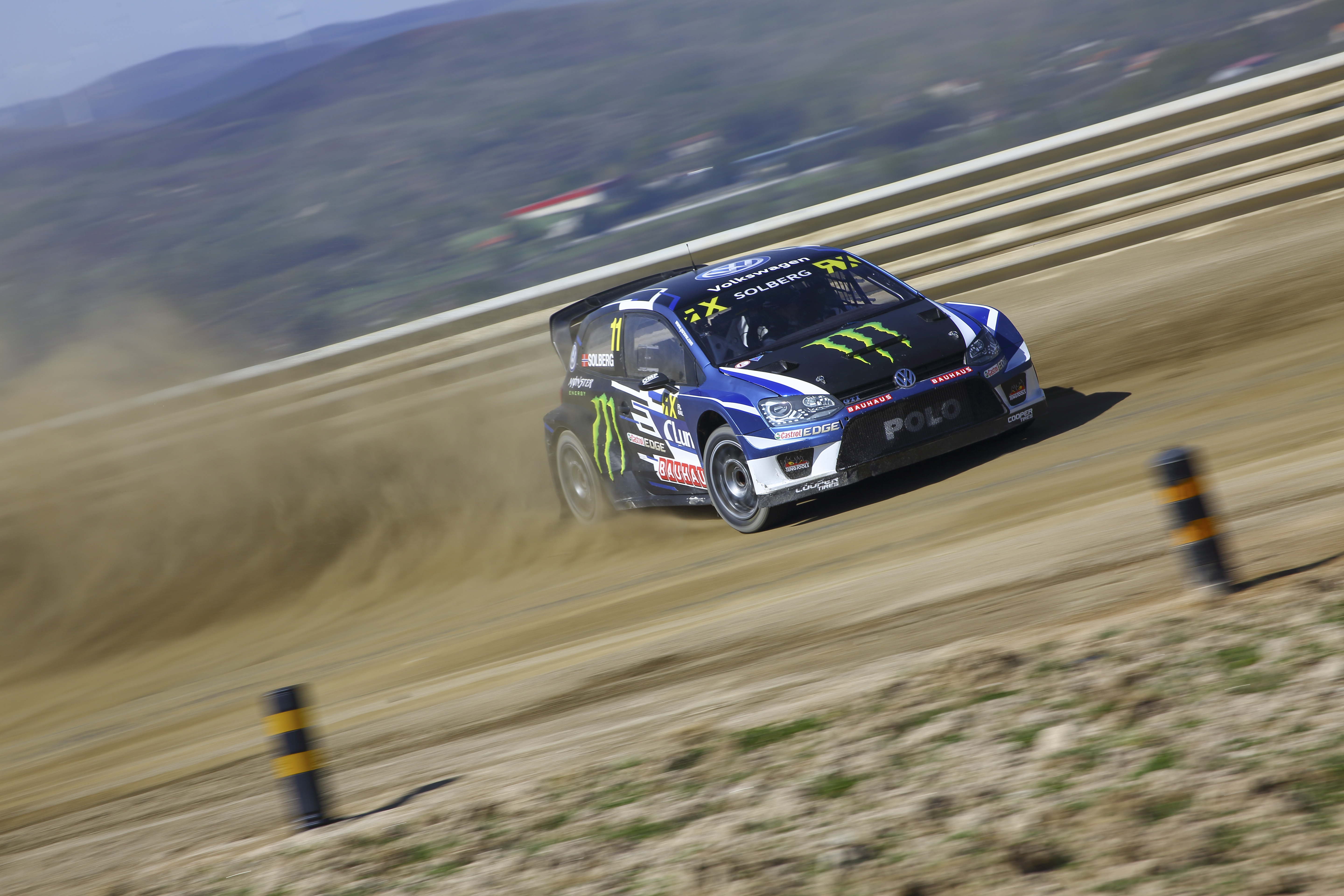 Petter Solberg, FIA World RX of Portugal 2017 in Montalegre